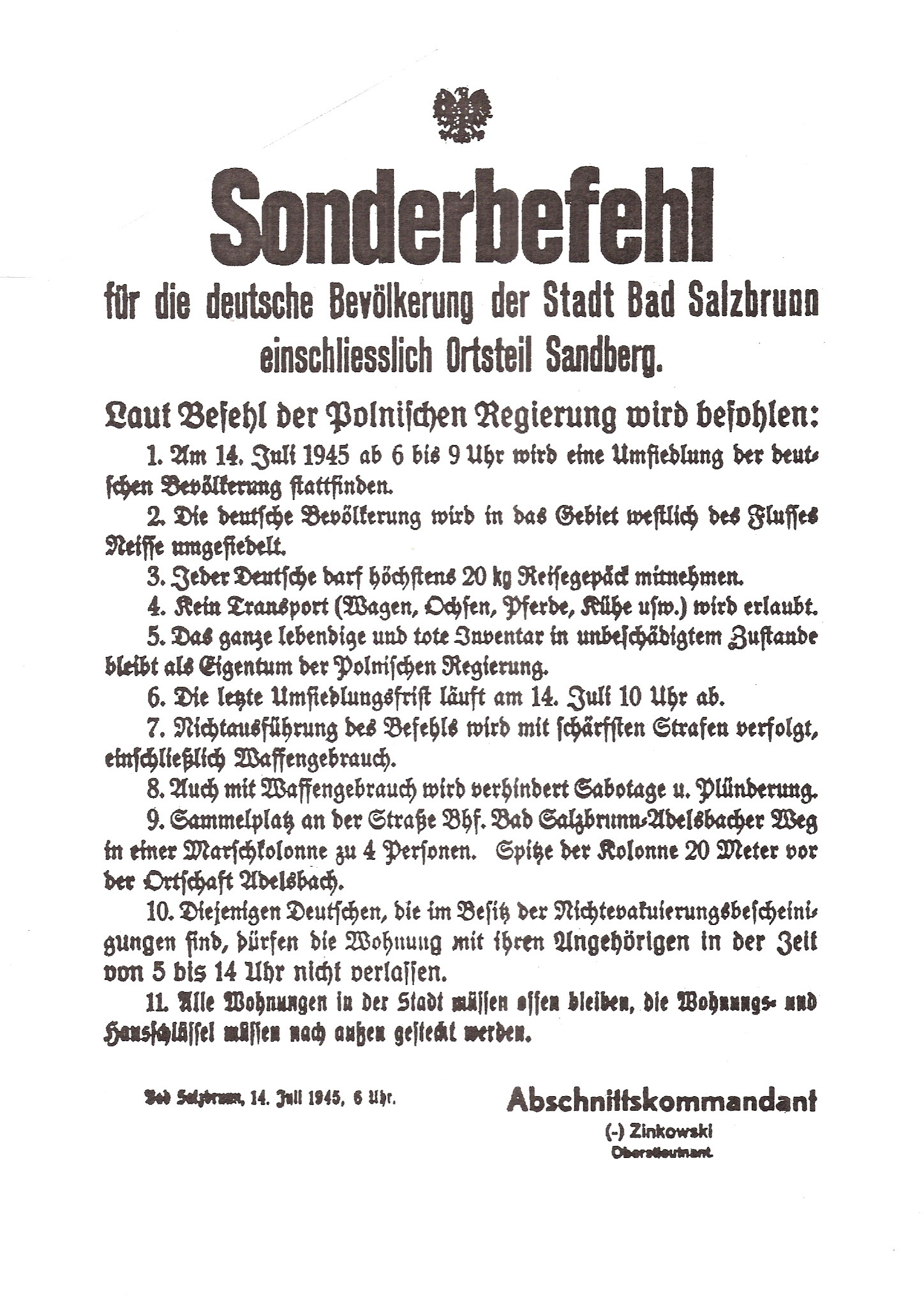 On July 14, 1945 at 6 clock in the morning this order to the German population of Bad Salzbrunn in the district of Sandberg, Lower Silesia, was issued bythe Polish section commander